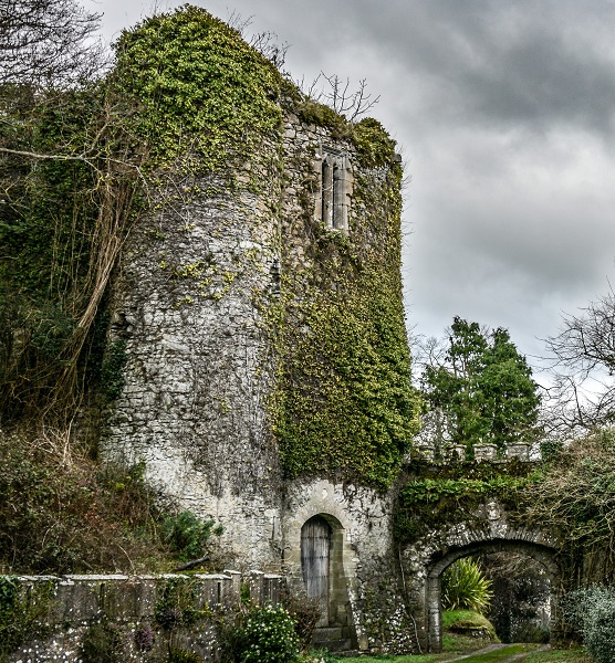 Ardfinnan Castle rare circular keep built during the early 13th century most likely by the Knights Hospitaller during their occupation of the castle. Received minor restoration in 19th century.